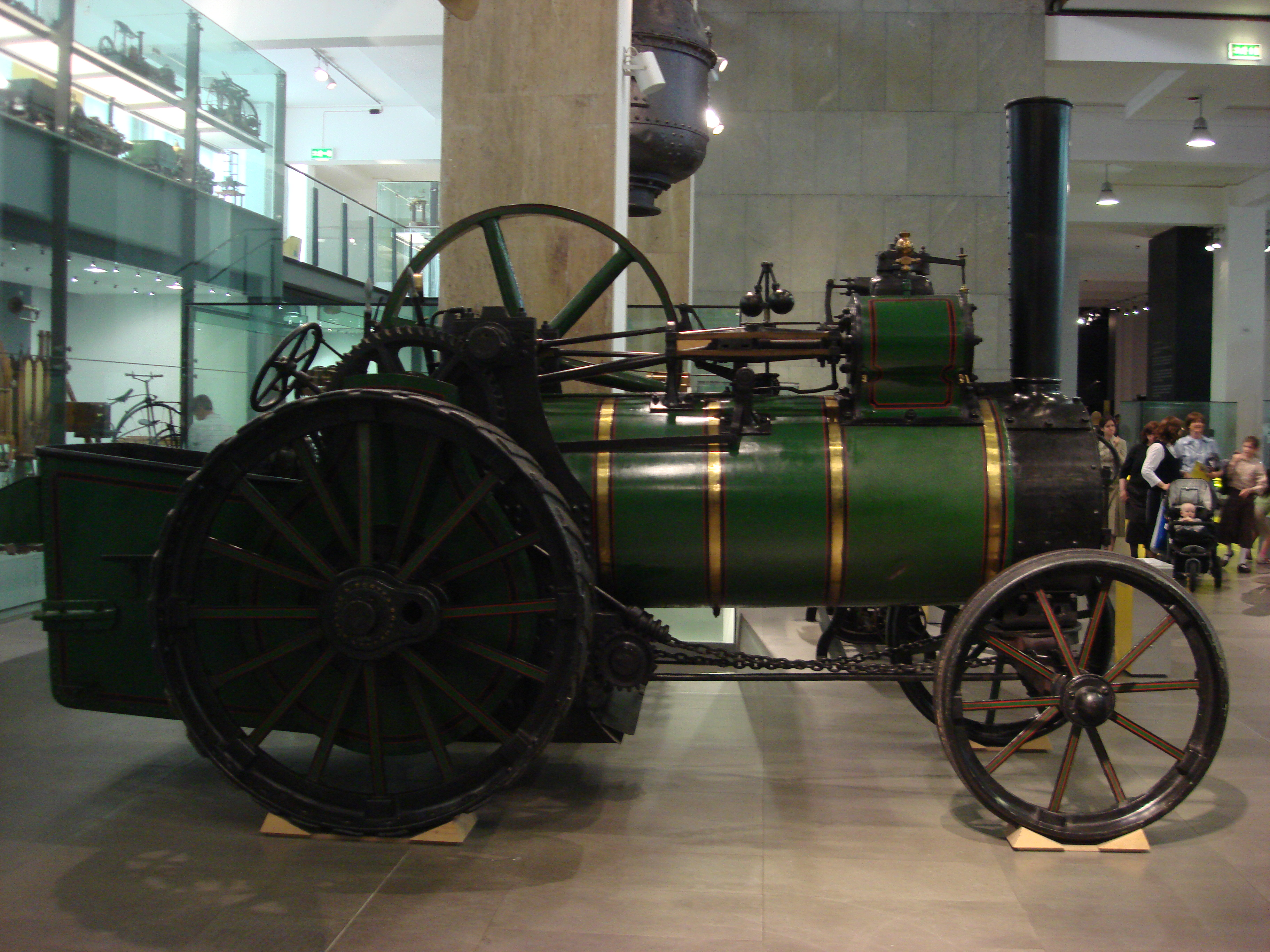 Aveling and Porter traction engine built in 1871 at the Science Museum (London)